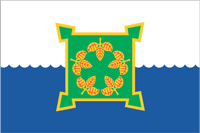 Chebarkul (Chelaybinsk oblast), flag